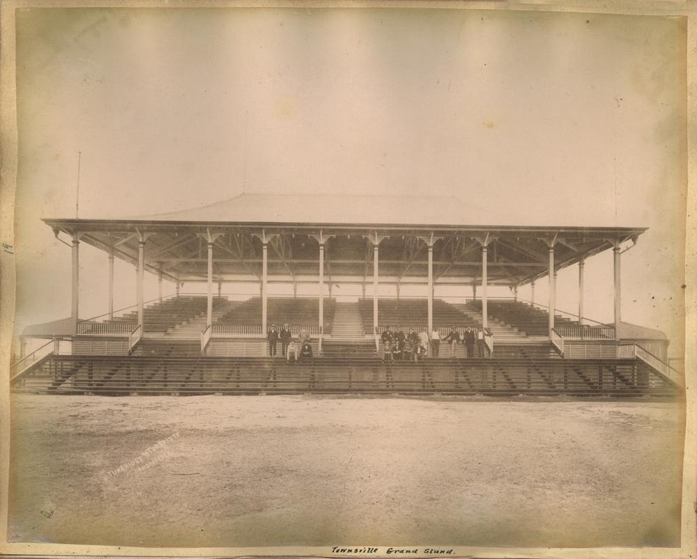 Grandstand at the Townsville race track Unidentified racing fans at the Townsville track, possibly including WalterTunbridge, city surveyor.